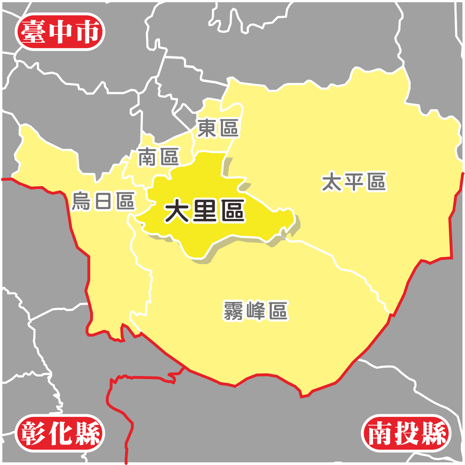 Dali District